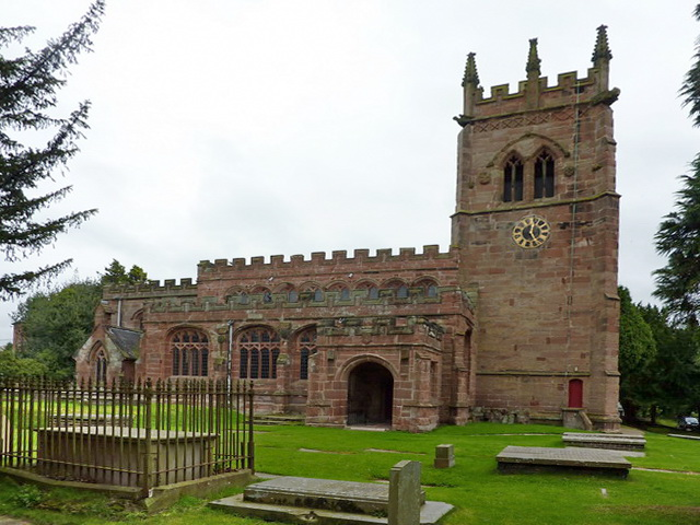 Photograph of the Church of St Bertoline, Barthomley, Cheshire